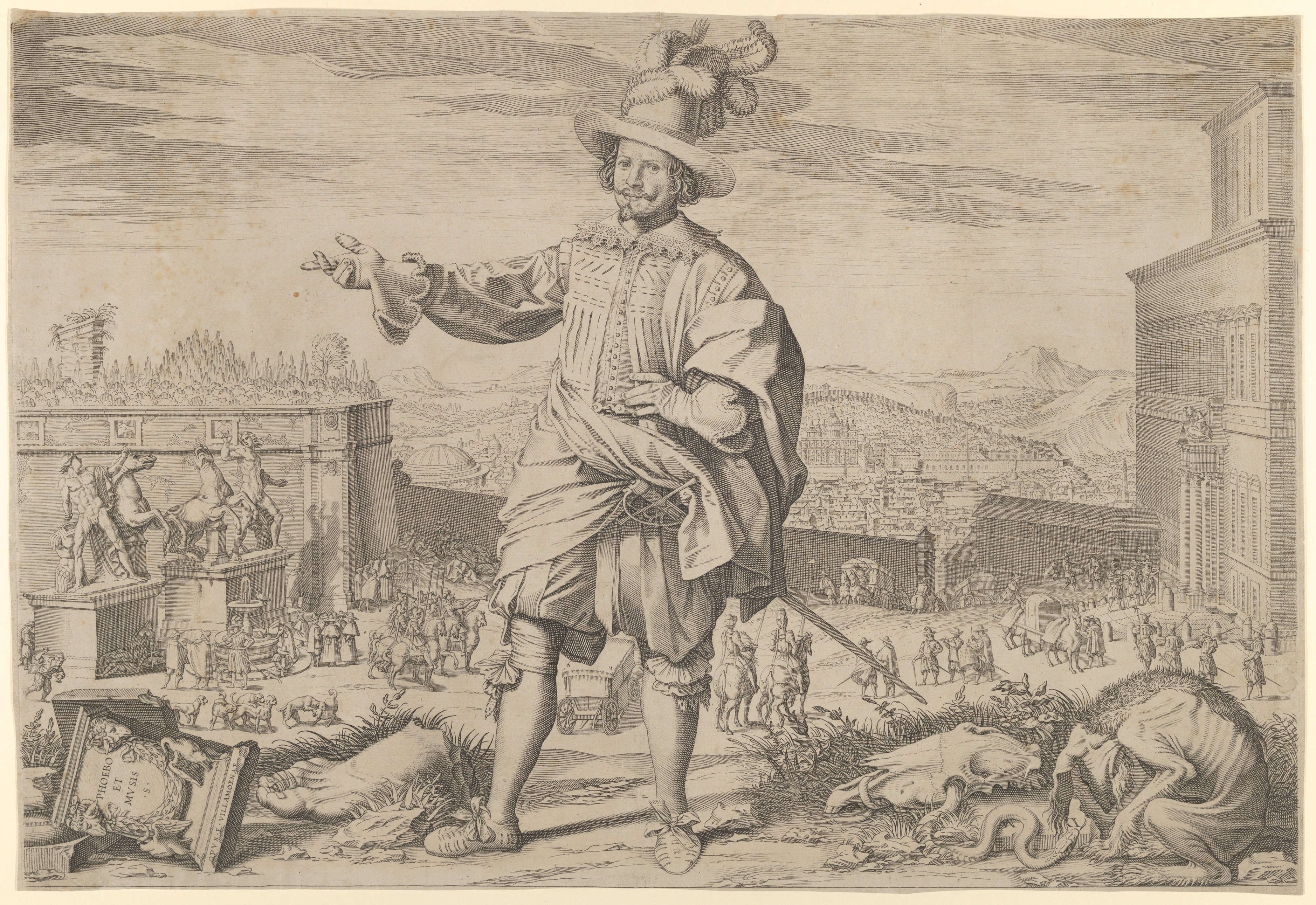 Print; Prints